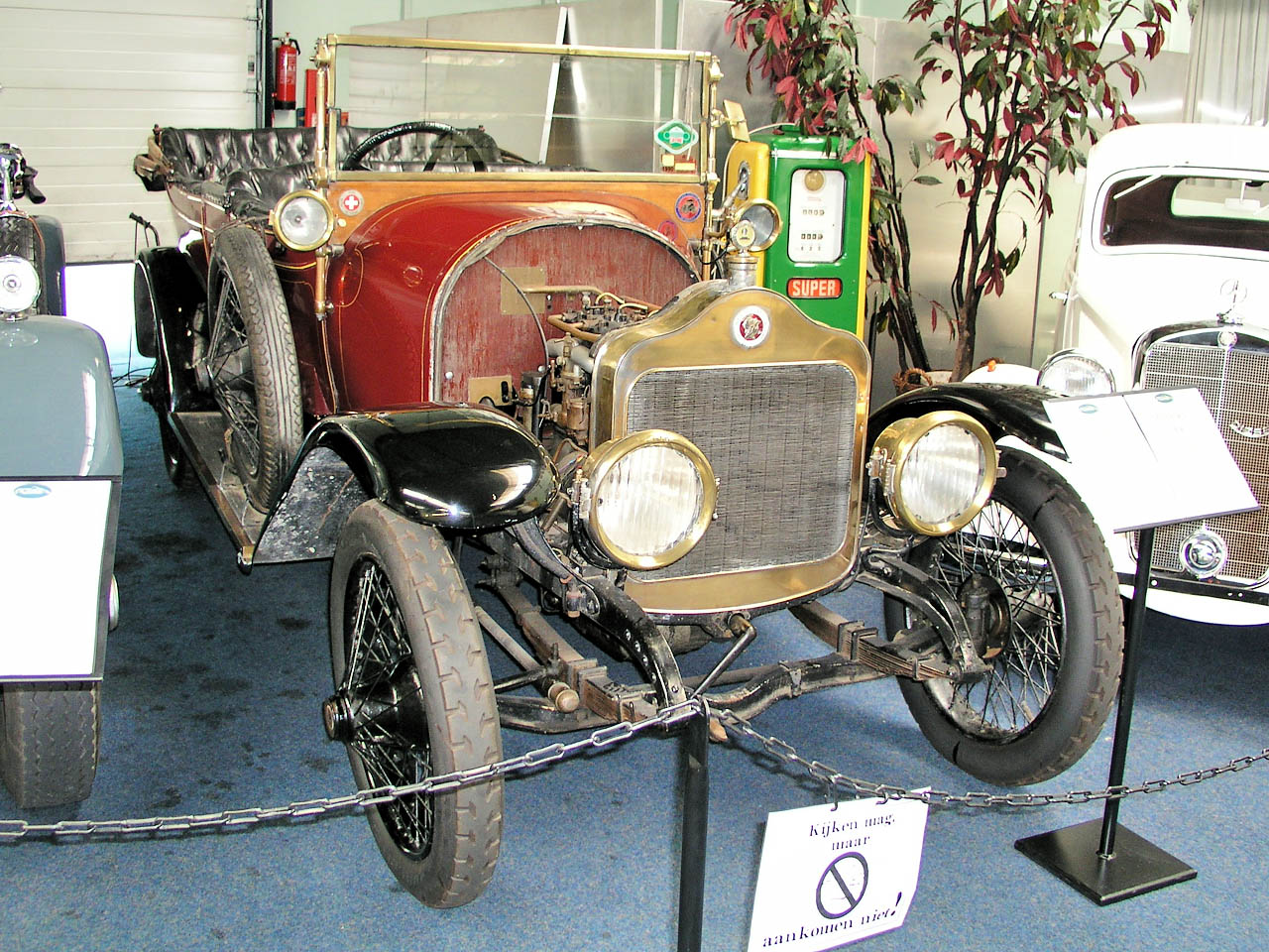 18 HP model powered by a 3307 cc 4-cylinder pair-cast engine with sleeve-valves, made in Belgium by Minerva Motors SA; front-side view